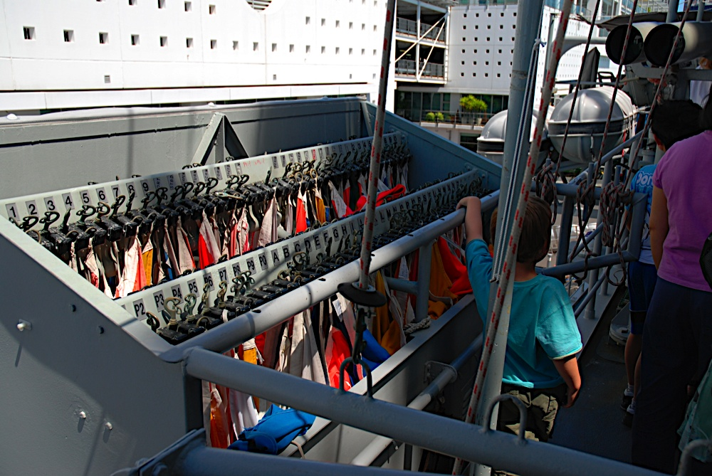 Signal flag rack on board the HMNZS Te Kaha - F77